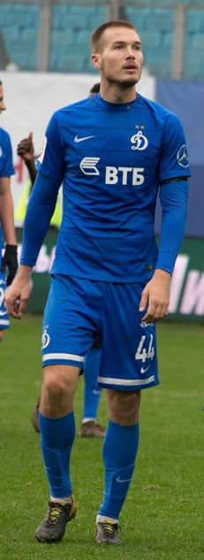 Toni Šunjić with FC Dynamo Moscow after the game against FC SKA-Khabarovsk.